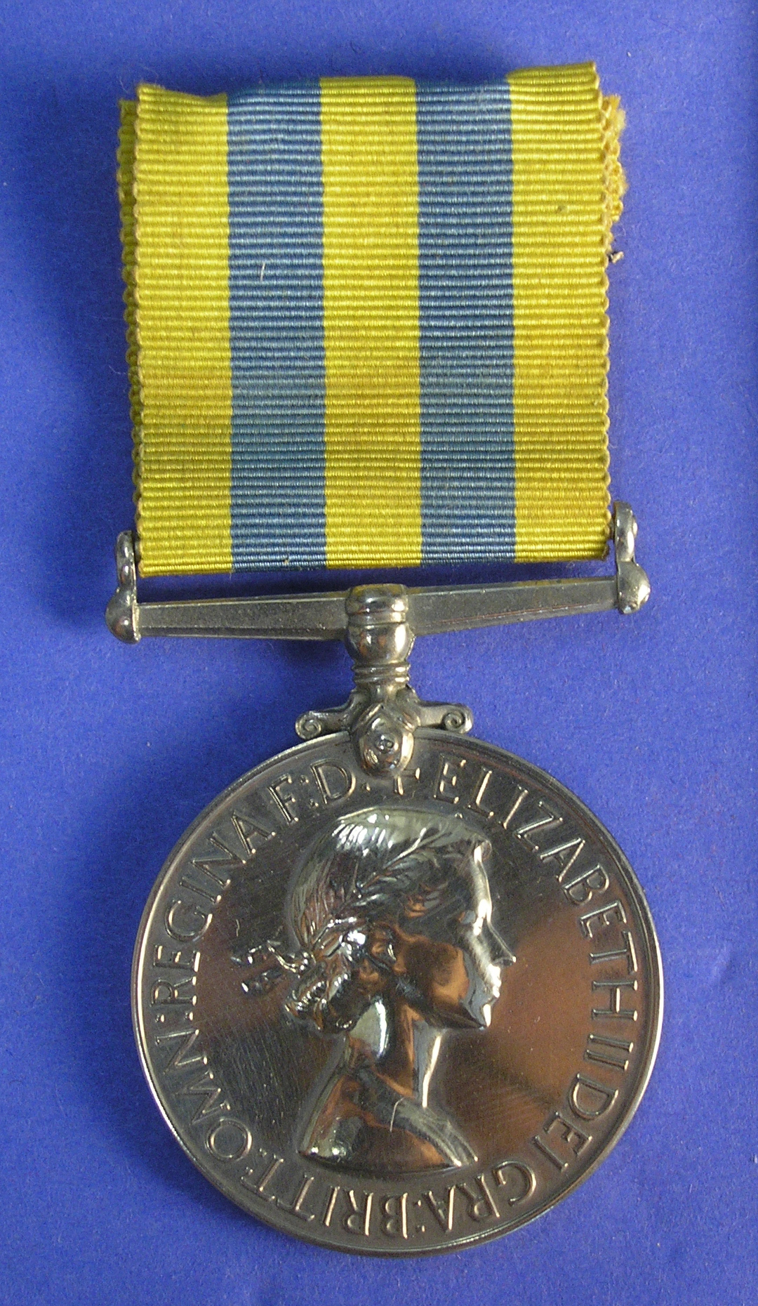 Korea Medal 1950-53, awarded to Gunner William Henry Deakin, RNZA (service No 203866), Korean War